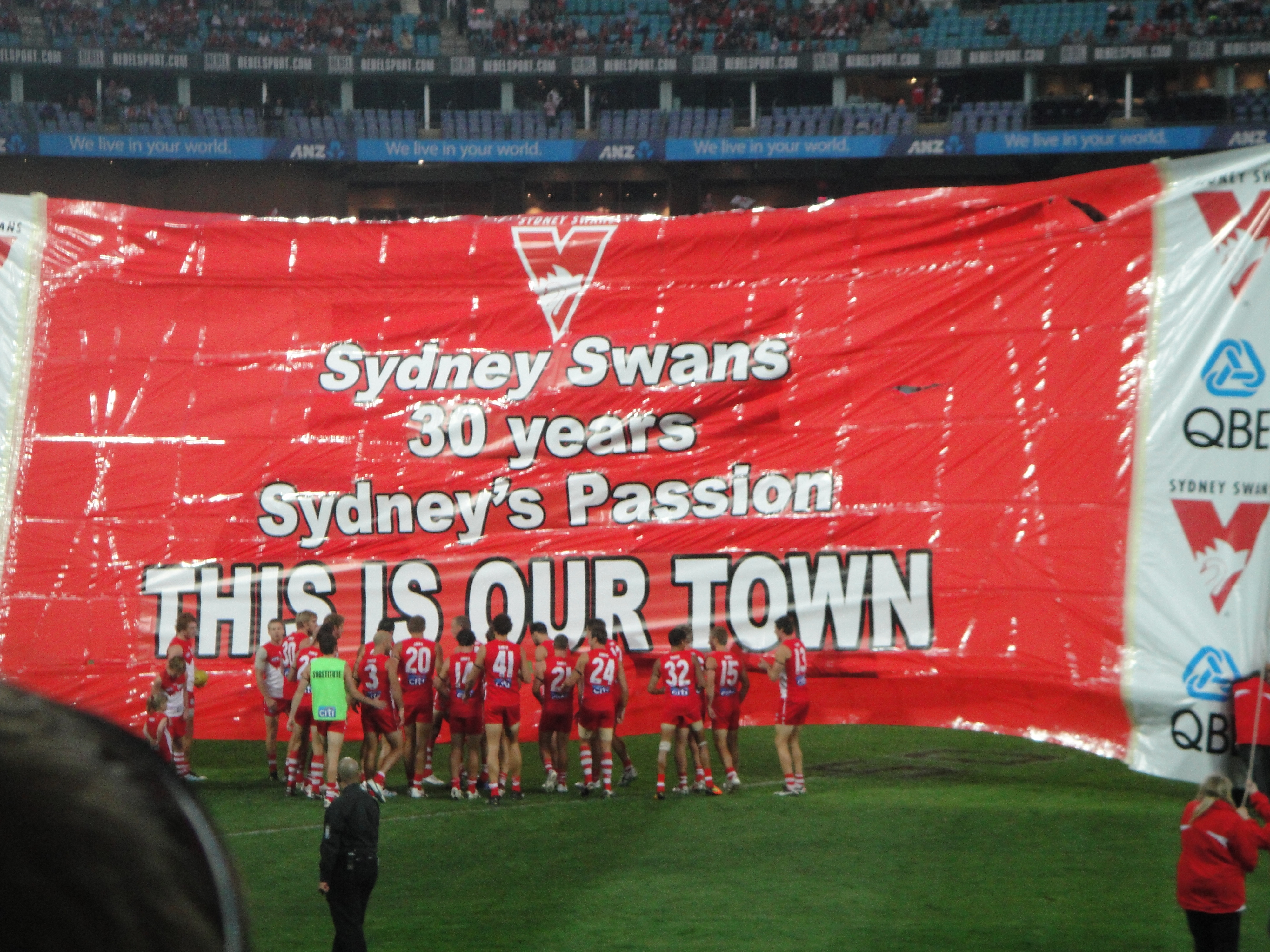 Sydney Swans players run through the banner in the first ever Sydney Derby, Saturday, March 24, 2012.